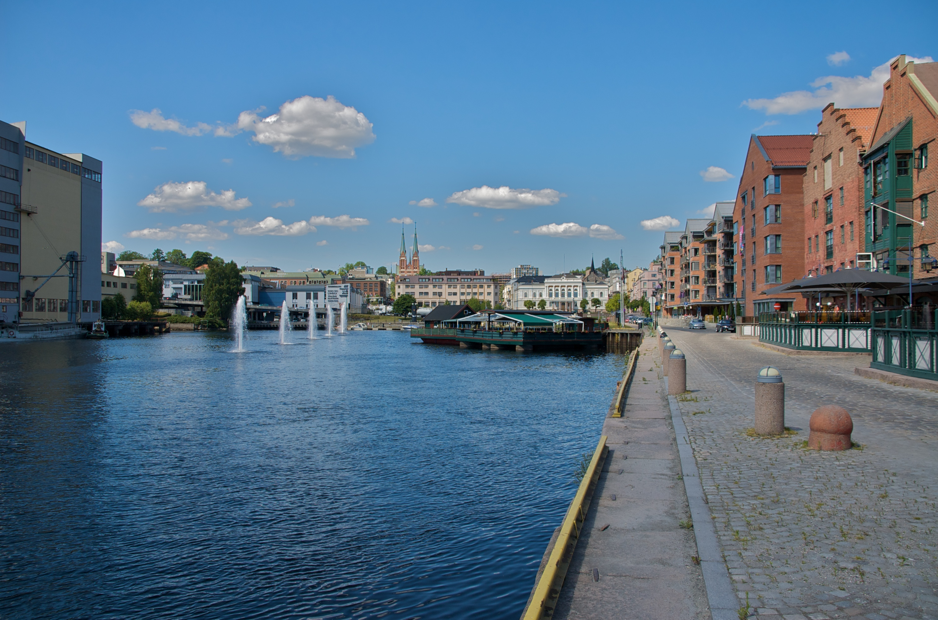 Skien seen from the harbour.